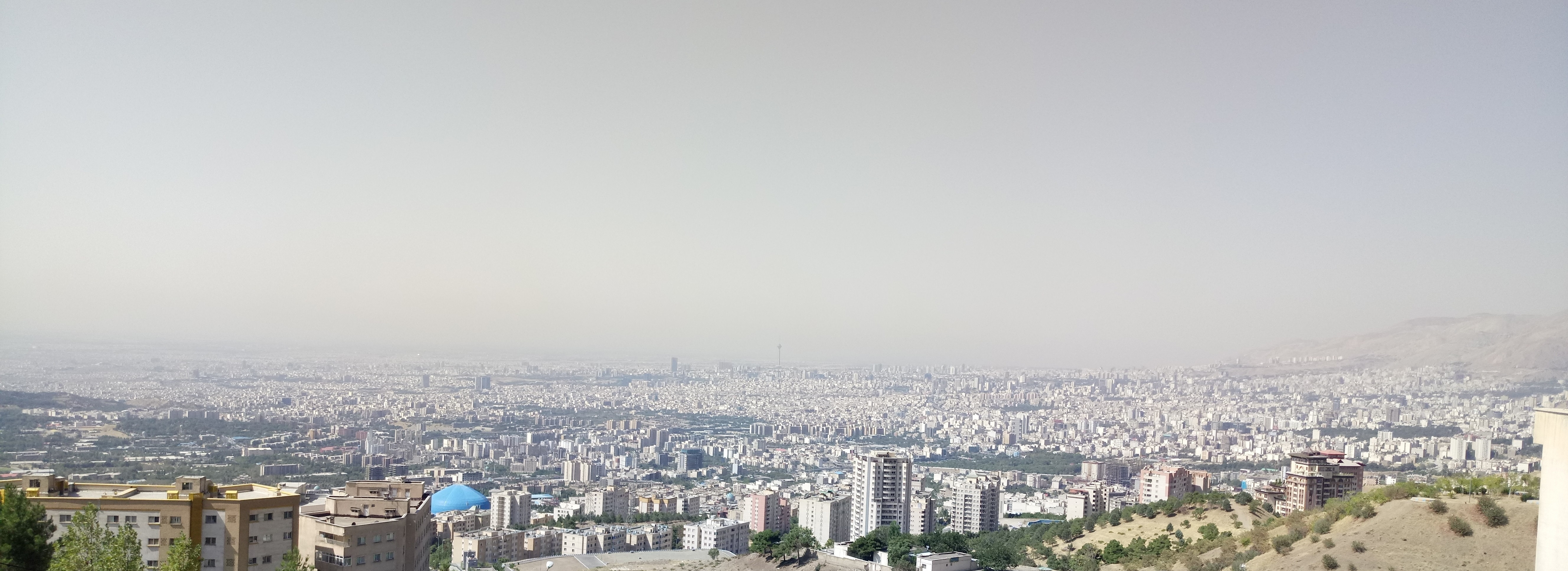 A panoramic view of Tehran during the day in summer